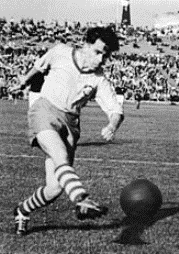 Factual corrections and alternative descriptions are encouraged separately from the original description. Additionally errors can be reported at this page to inform the Bundesarchiv. Original historic description: Guenther Wirth 1955